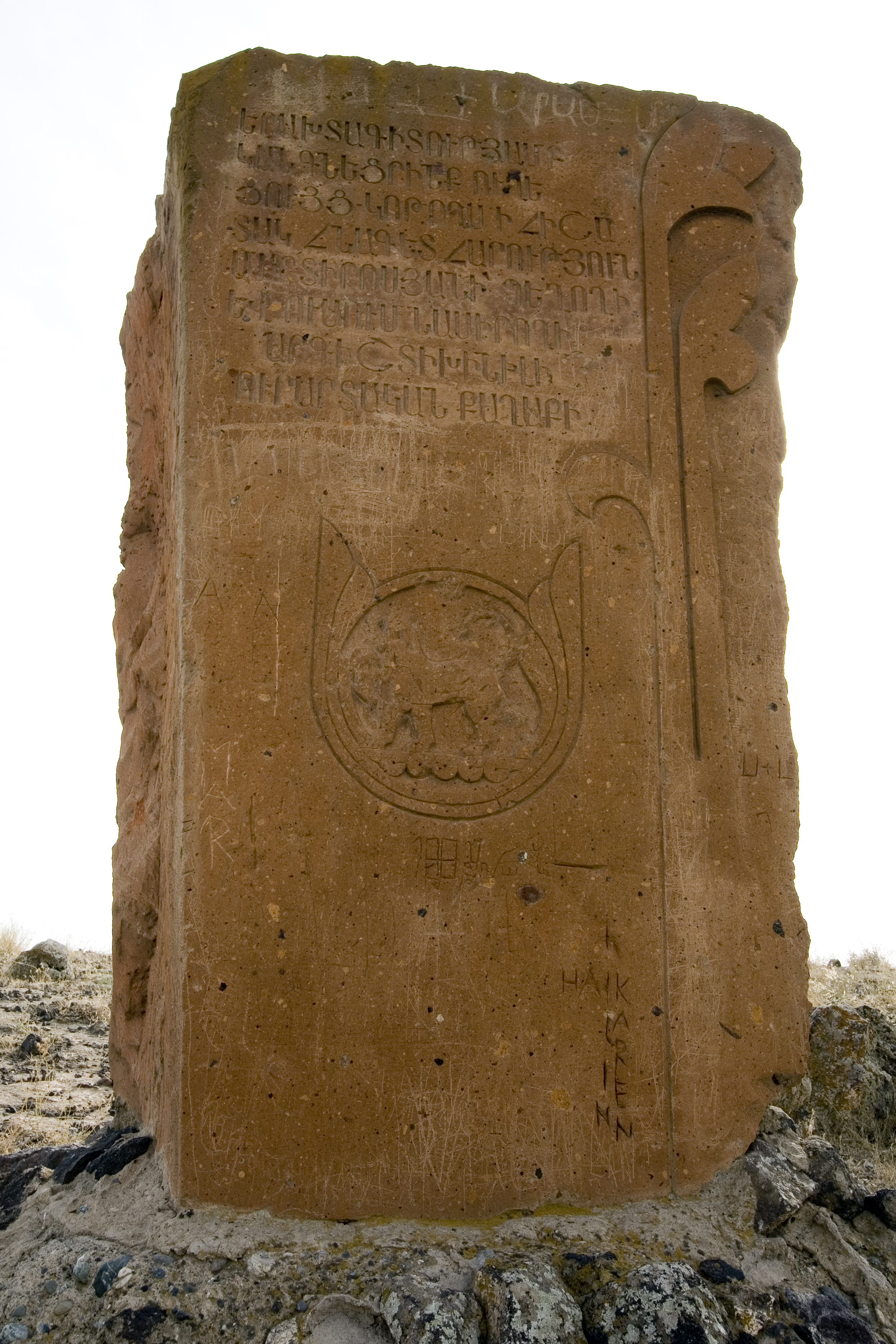 Monument in Argishtihinili